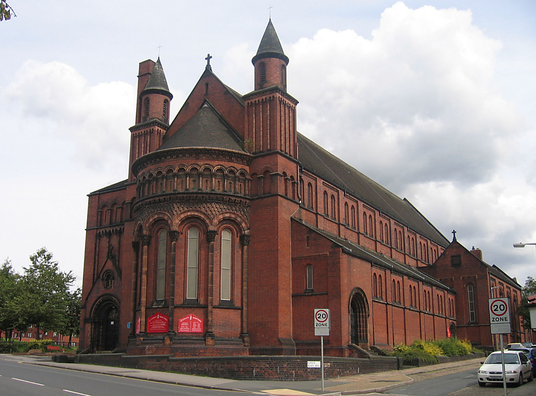 Church of England parish church of St Aidan, Harehills, Leeds LS8 5QD, West Yorkshire, England